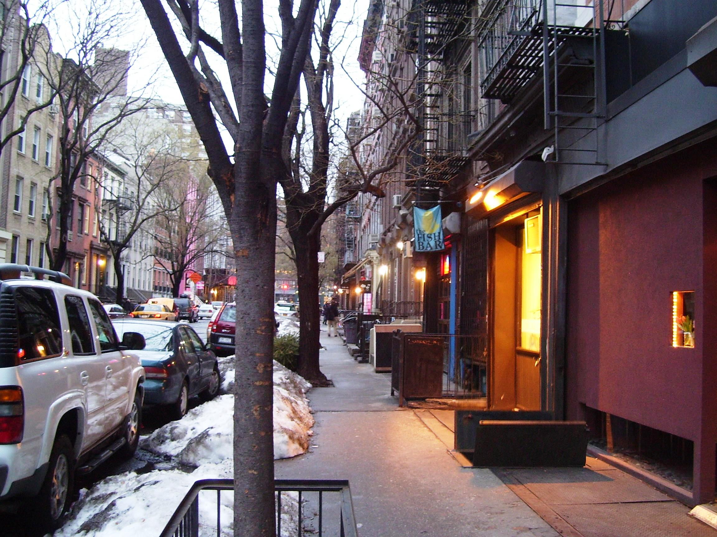 Streetscape: East 5th Street between Second Avenue and Cooper Square (Third Avenue) in the East Village neighborhood of Manhattan, New York City in wintertime. Most of the street is located within the East Village/Lower East Side Historic District (Source: "East Village/Lower East Side Historic District Designation Report")